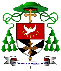 Coat of arms of Dominik Duka, Bishop of Hradec Králové